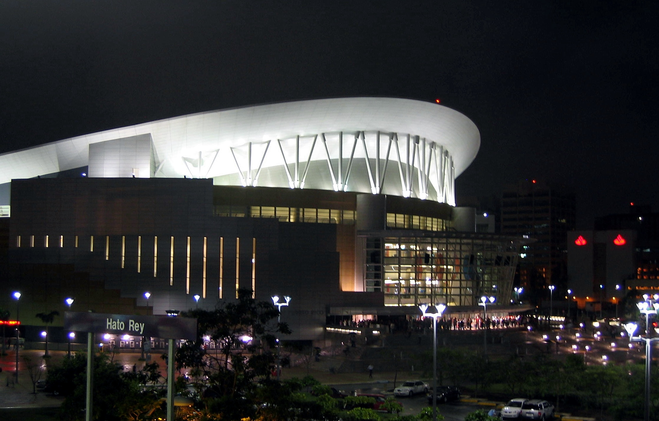 Jose Miguel Agrelot Coliseum, photo taken from "Hato Rey" Tren Urbano train station after a Santurce vs. Bayamon basketball game.